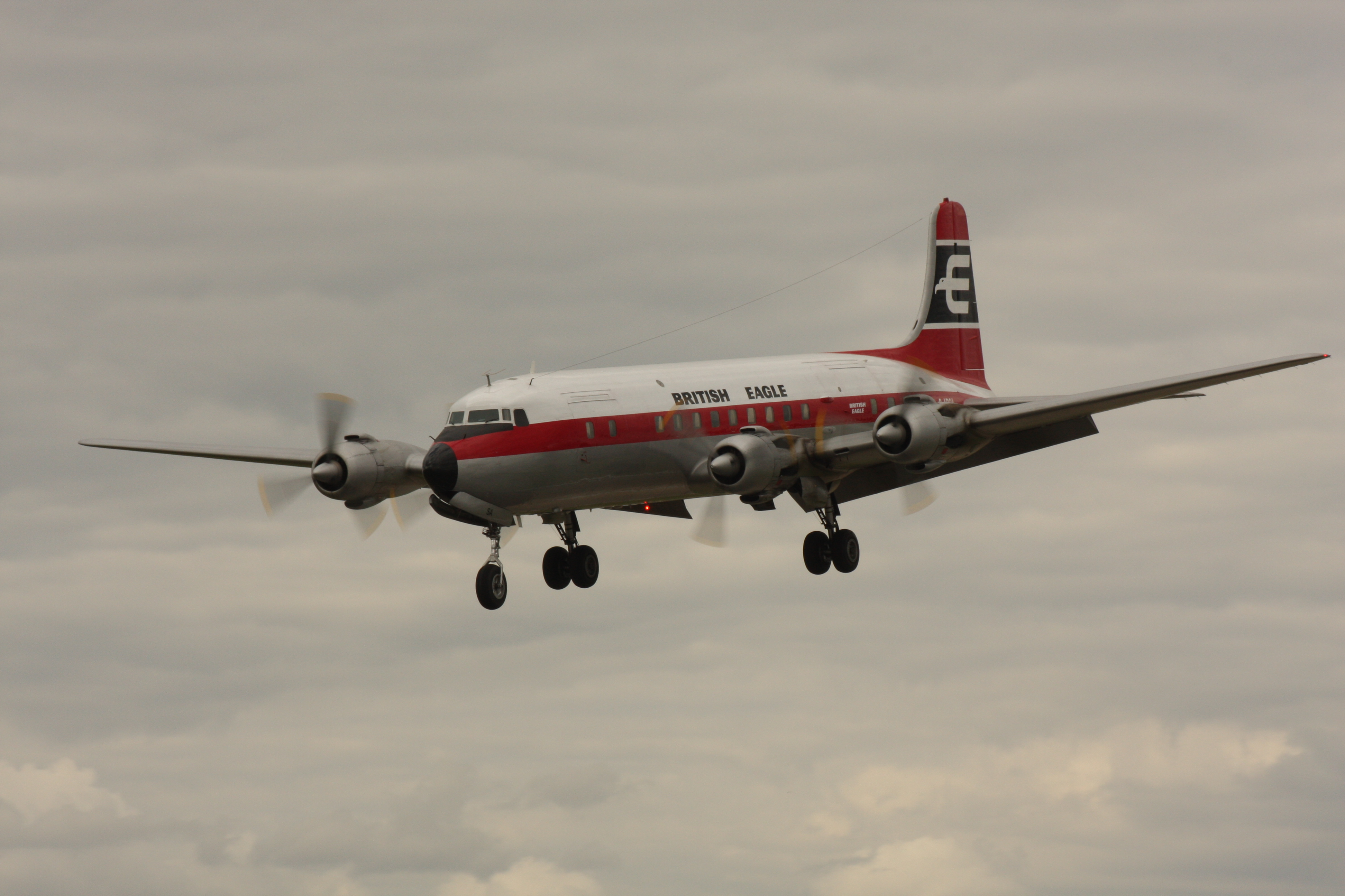 Douglas DC-6A